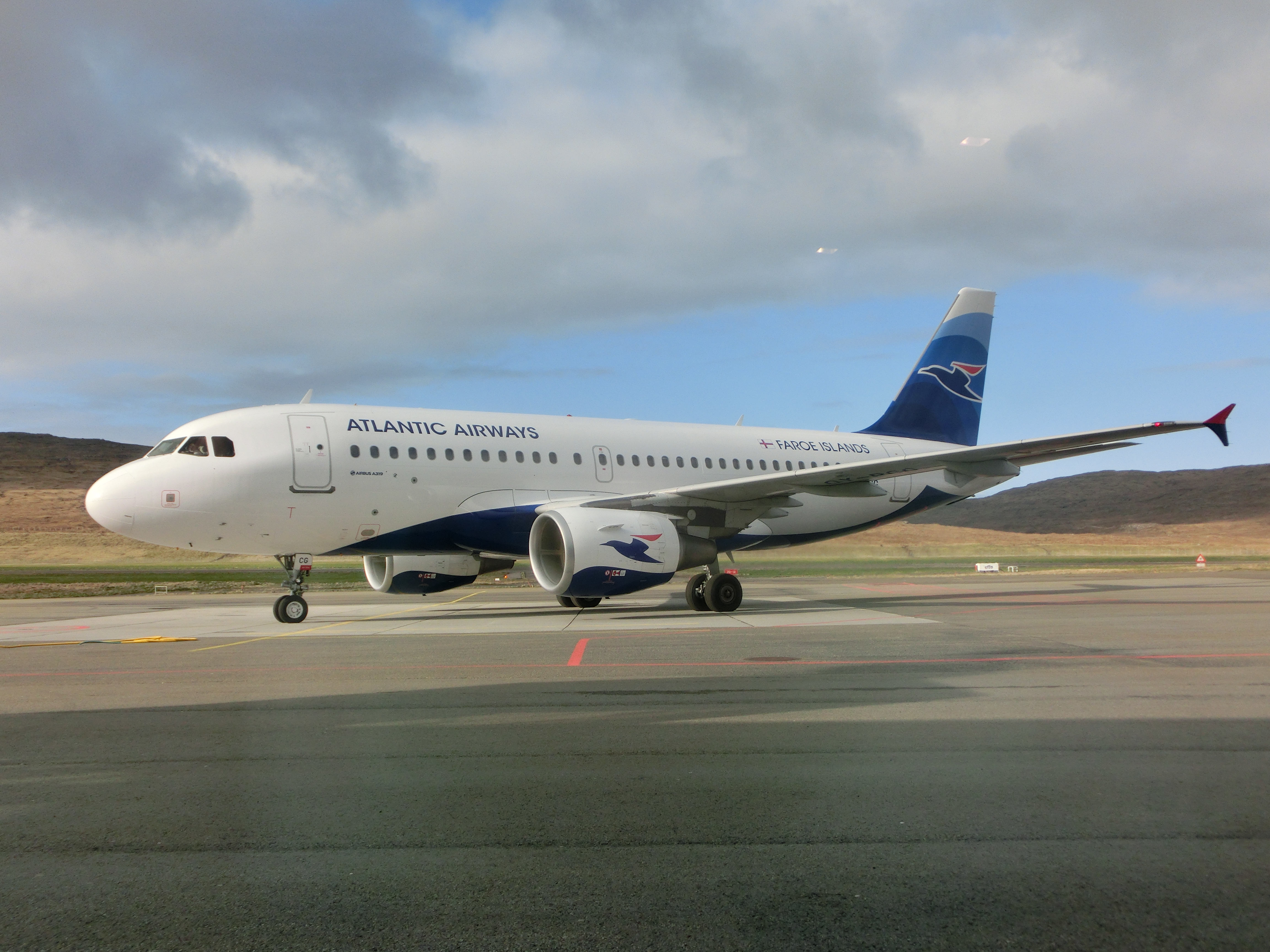 Atlantic_Airways_A319_OY-RCG